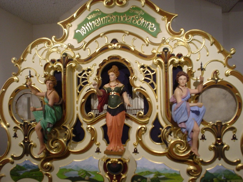 Manufacturer: Wilhelm Bruder Söhne (Waldkirch im Breisgau) Model: unknown estimated type: Karussell-orgel,[1] Jahrmarkts-orgel or Kirmes-orgel (fairground organ, also sometimes called Konzert-orgel),[2] wide meaning of Orchestrion (or Orchester-orgel),[3] or Straßen-orgel (dutch street organ or street organ) ... similar model: Groðe Orchester-Orgel (1920s ±10years)[3] 1 March 2007 A street organ. These take punch card strips like looms. At the clockwork instrument museum in Utrecht. Footnotes ↑ ↑ ↑ a b Frank Nordberg. Orchestrion: Wilhelm Bruder Söhne Groðe Orchester-Orgel. Musica Viva. Note: On MusicaViva, Wilhelm Bruder Söhne's model are categorized to either "Barrel organ" (less decorative) or "Orchestrion" (decorative)